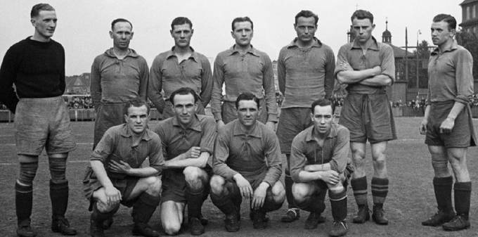 Antonin lanhaus